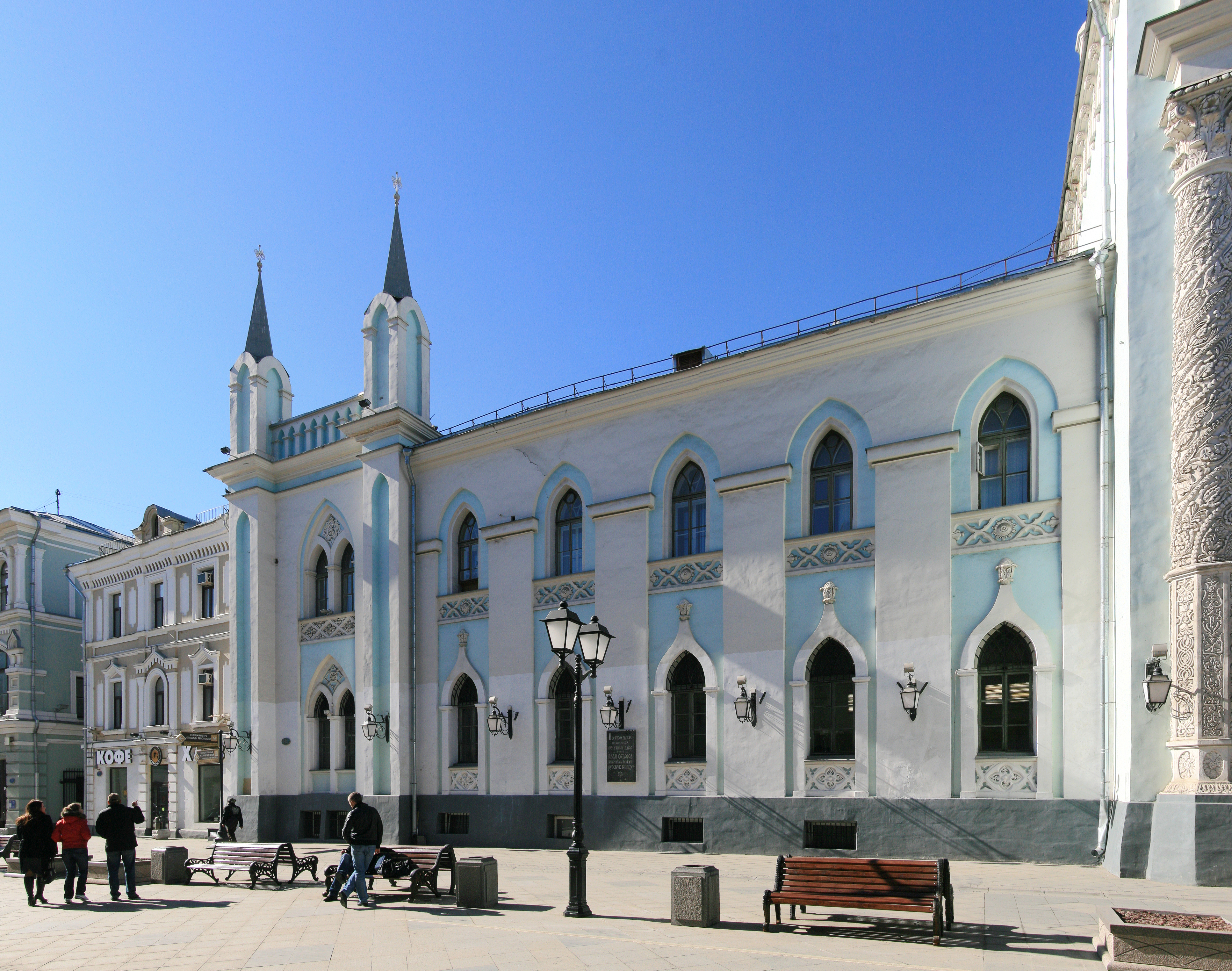 Moscow Print Yard, NIkolskaya street 15, Moscow